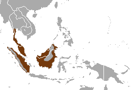 Otter Civet (Cynogale bennettii) range